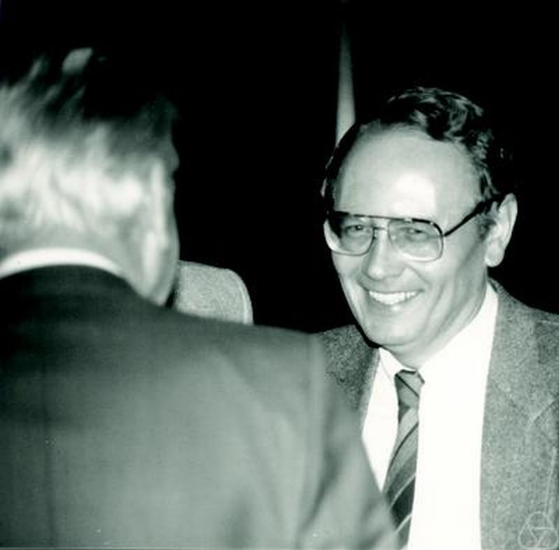 Rolf Walter, Grotemeyer-Kolloquium, Bielefeld 1987